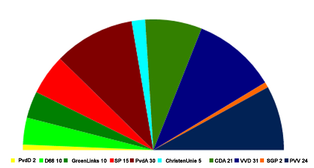 Allocation of seats of the second chamber after the 2010 elections (Netherlands)